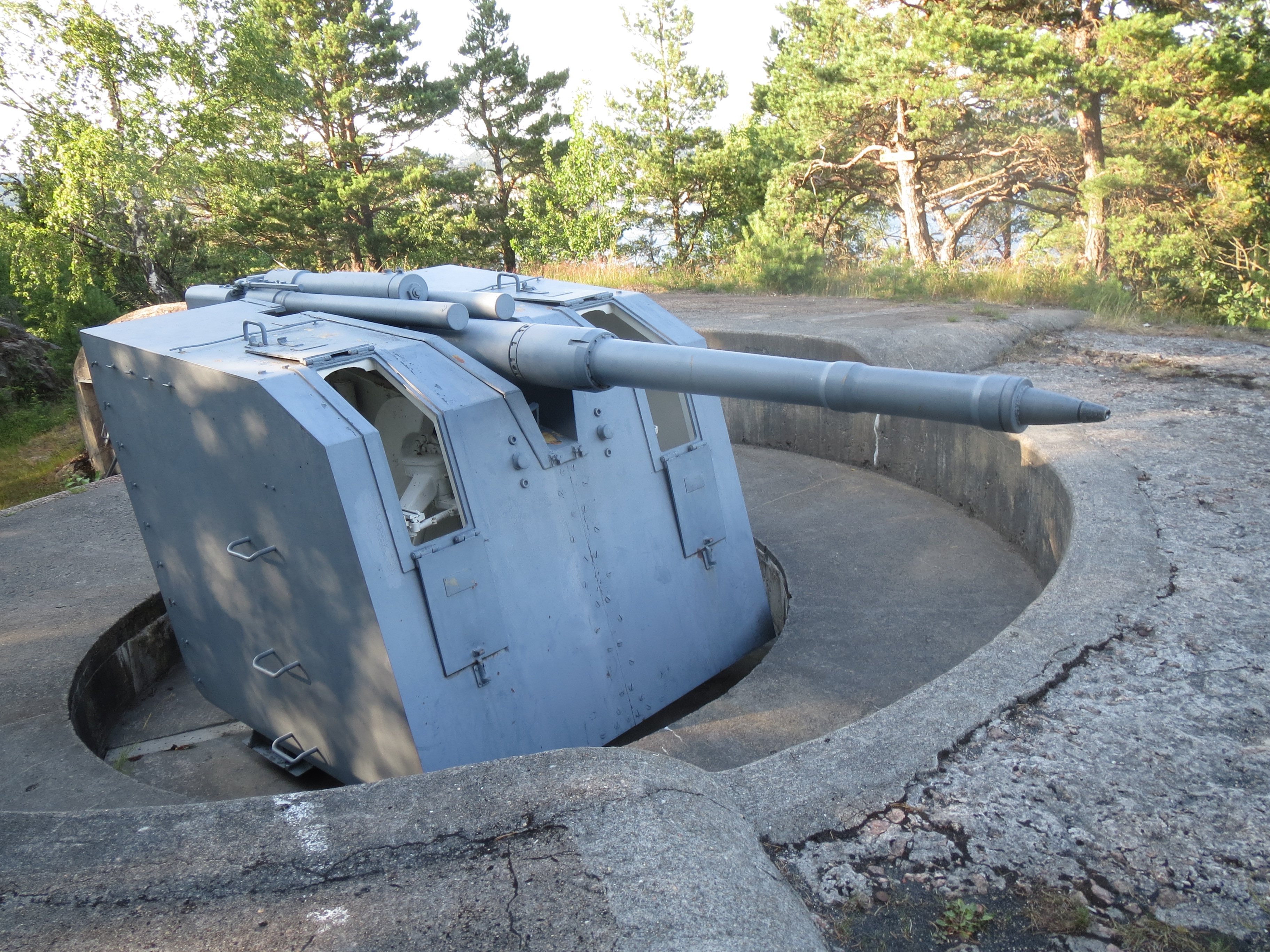 Fixed cannon, 10, 5 cm Krupp at Mellombatteriet, Odderøya (2015)